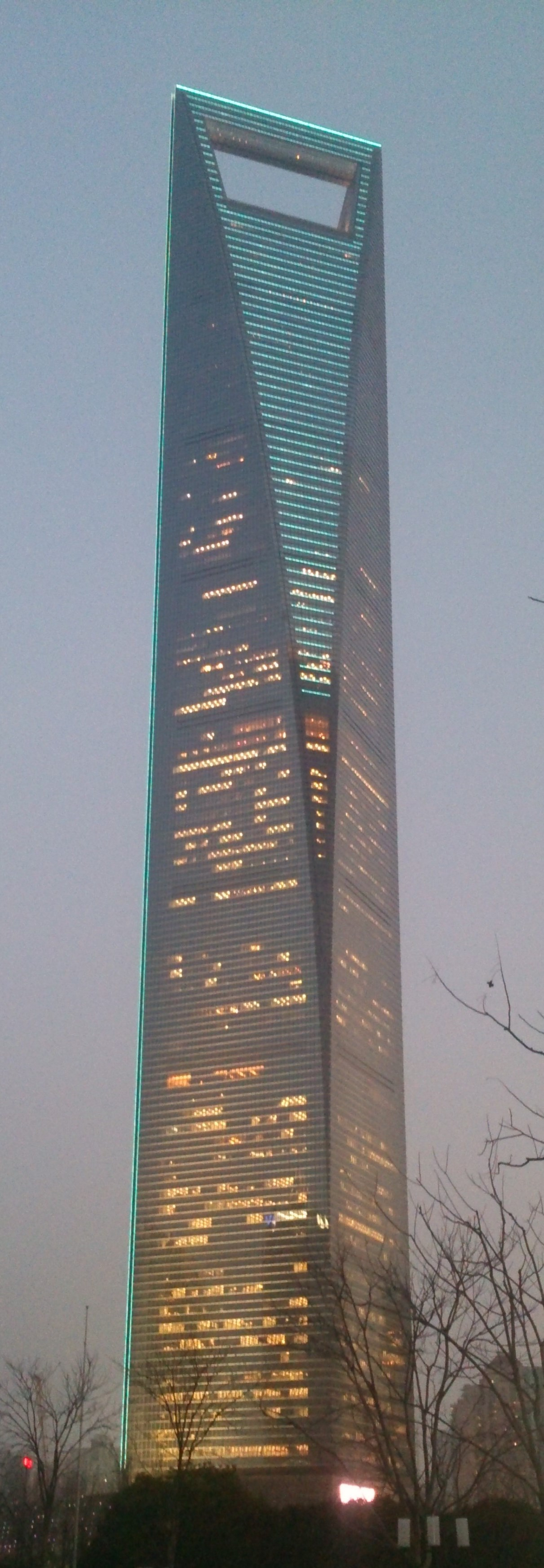 Shanghai World Financial Center